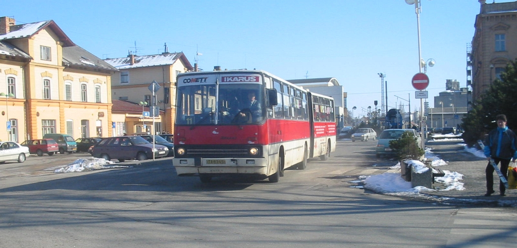 Ikarus 280, Tábor